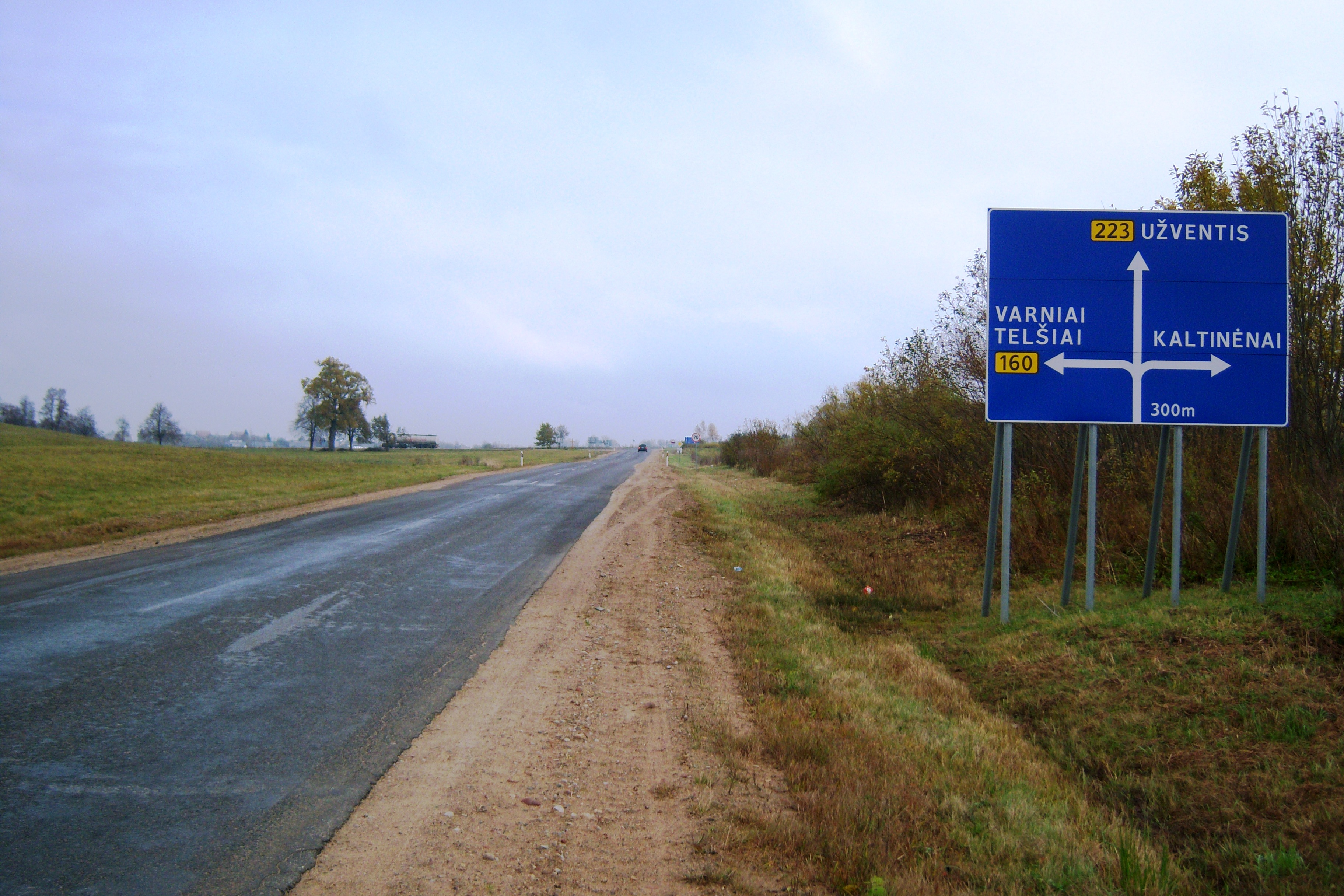 Road KK160, near intersection to Užventis, Lithuania